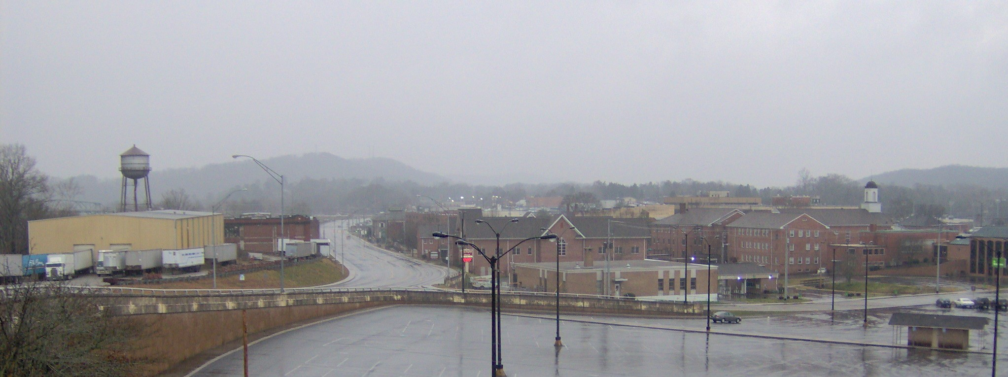 Clinton, Tennessee, looking west from the TN-61 bridge.